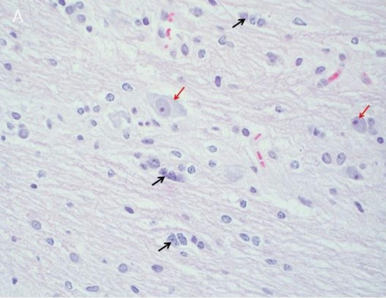 Biopsy of a diffuse intrinsic pontine glioma. (A) Hematoxylin and eosin (H&E) stain showing neoplastic cells with nuclear atypia (black arrows) and intrinsic pontine neurons entrapped by neoplasm (red arrows). (B) H3K27me3 immunohistochemistry stain with wild type (black arrows) and mutant (red arrows) protein.